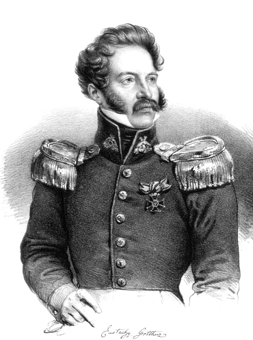 Eustachy Grothus